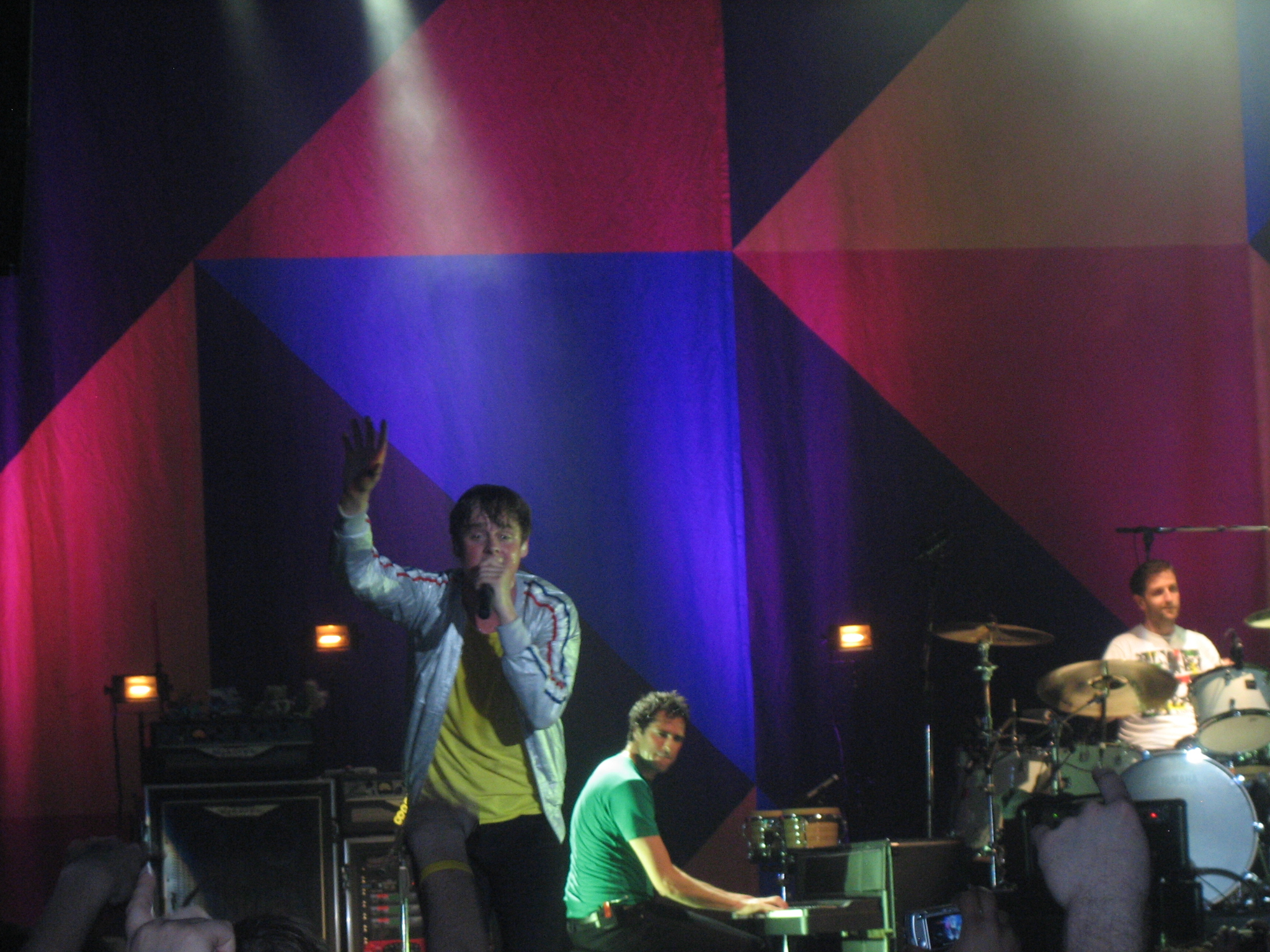 Keane at the Sound Academy, Toronto